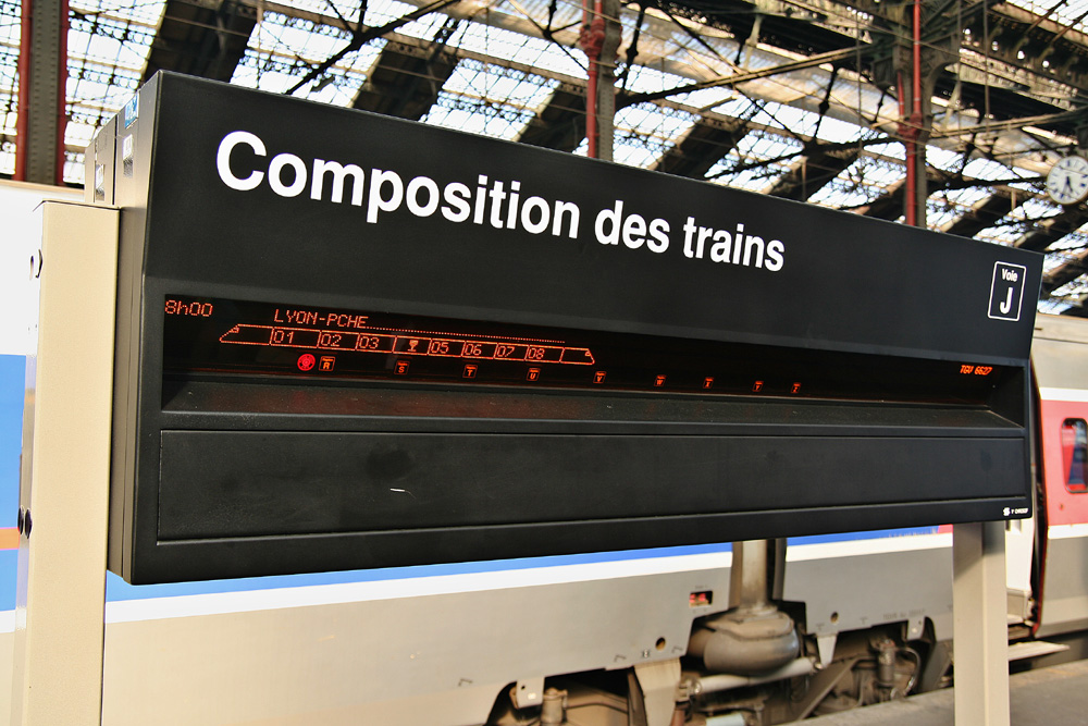 A carriage position indicator in France